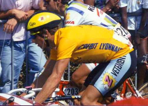 Greg LeMond wears the yellow jersey of race leader at the start of the 21st and final stage of the 1990 Tour de France in Brétigny-sur-Orge.